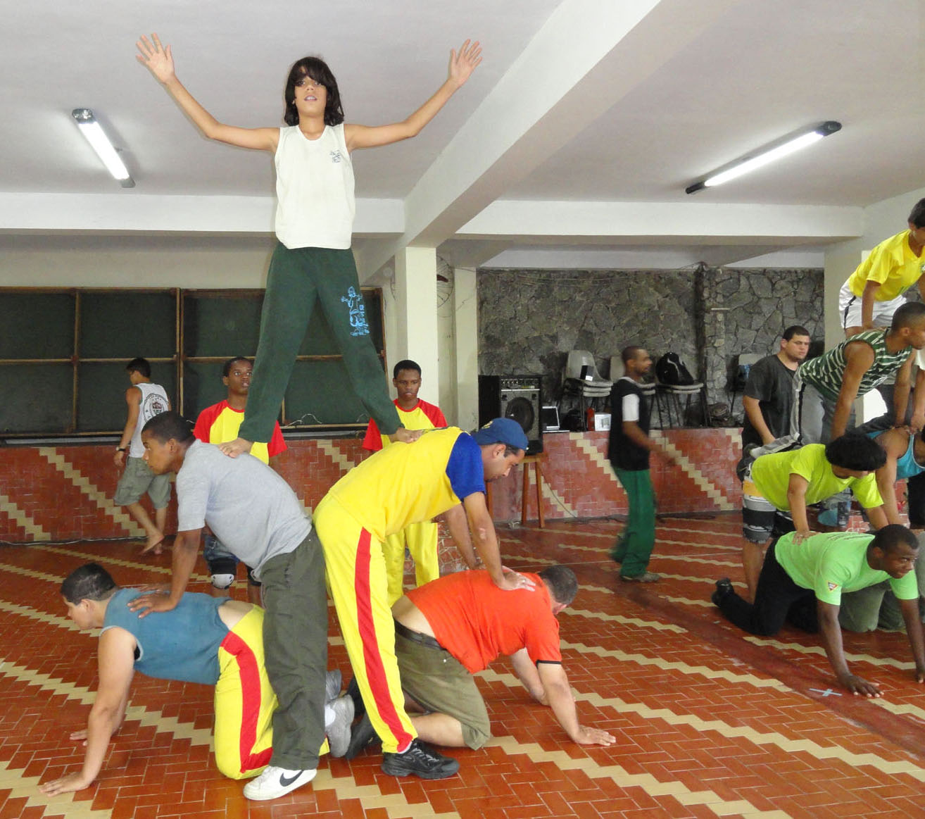 Trainning for gymnastic formation at Niteroi, Brazil, in 2010.